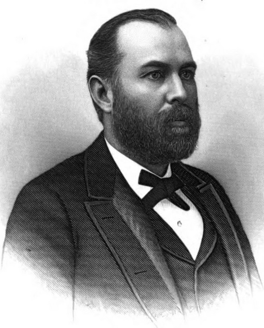 Frank W. Wheeler (Michigan Congressman)